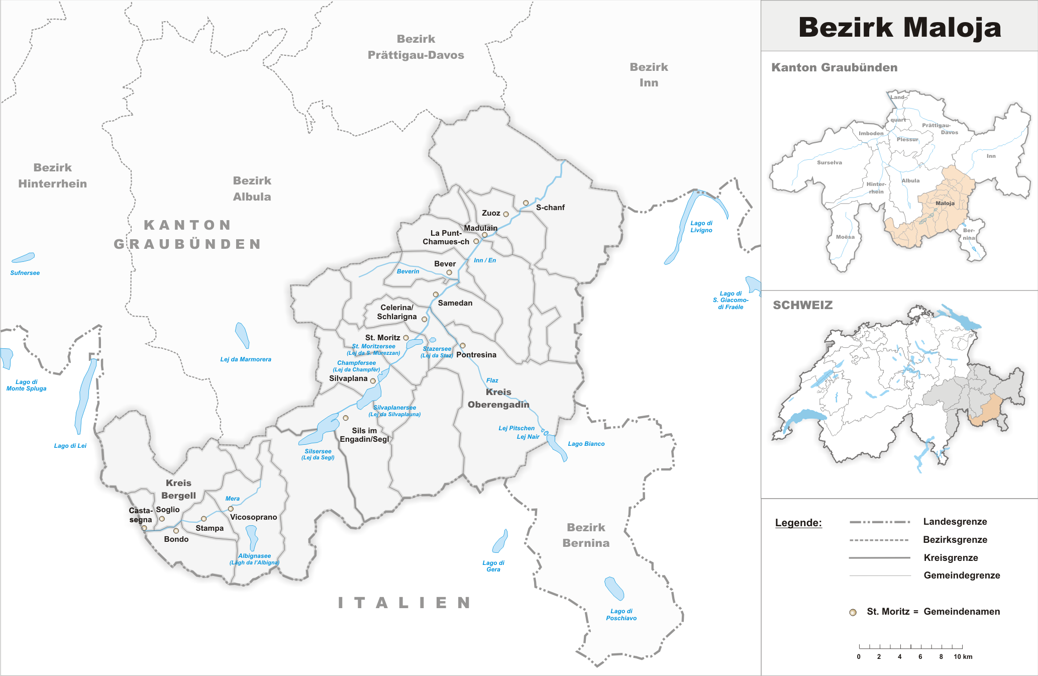 Municipalities in the district of Maloja